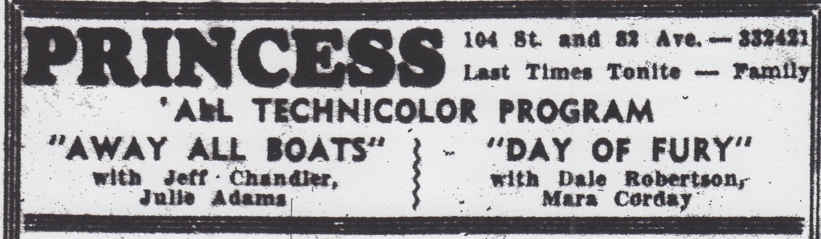 An ad placed on page 22 of the Edmonton Journal on July 19, 1958. It was the last one the Princess would publish before closing.